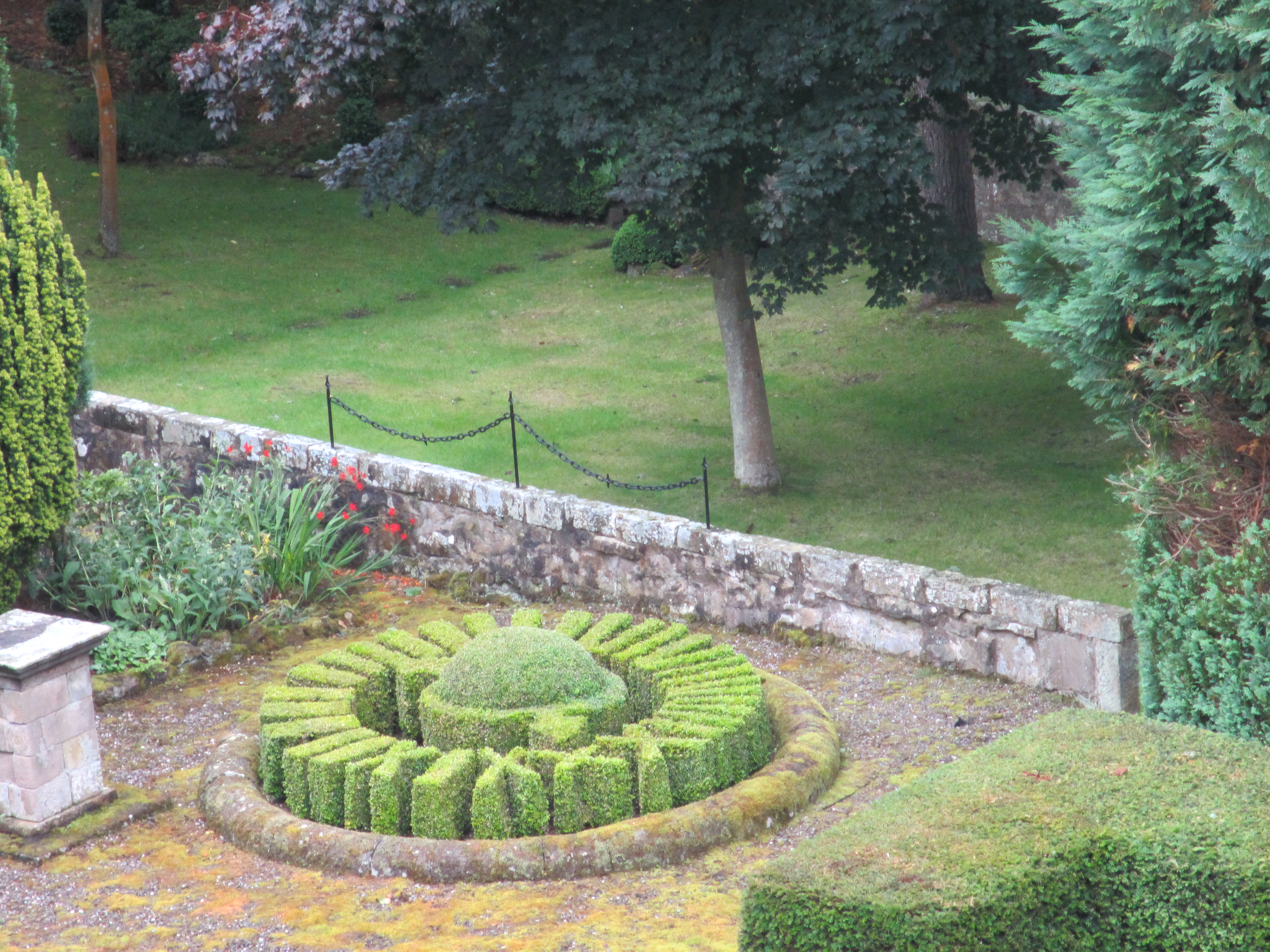 At 10 to 2, It's Time for Tea